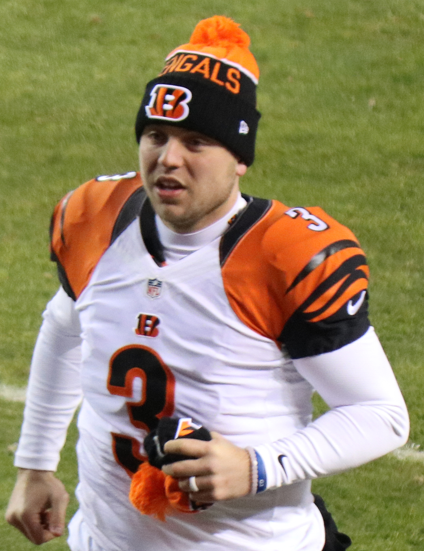 Keith Wenning, a player on the National Football League.